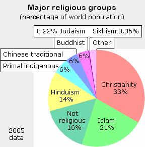 Small pie chart of Major_world_religions as a percentage of the world population. The image was prepared for Wikipedia using 2005 data for each group. However, the percentages add up to 102.58%, even though "Other" isn't even given a number. This has boggled the minds of many Wikipedians.